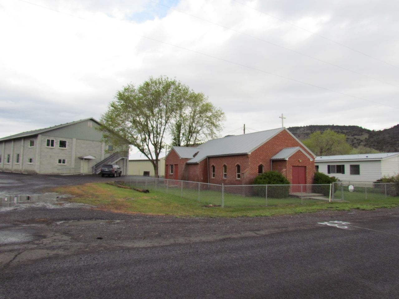 Drewsey Or (3)